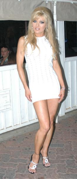 Tylene Buck, taken at the XRCO Awards